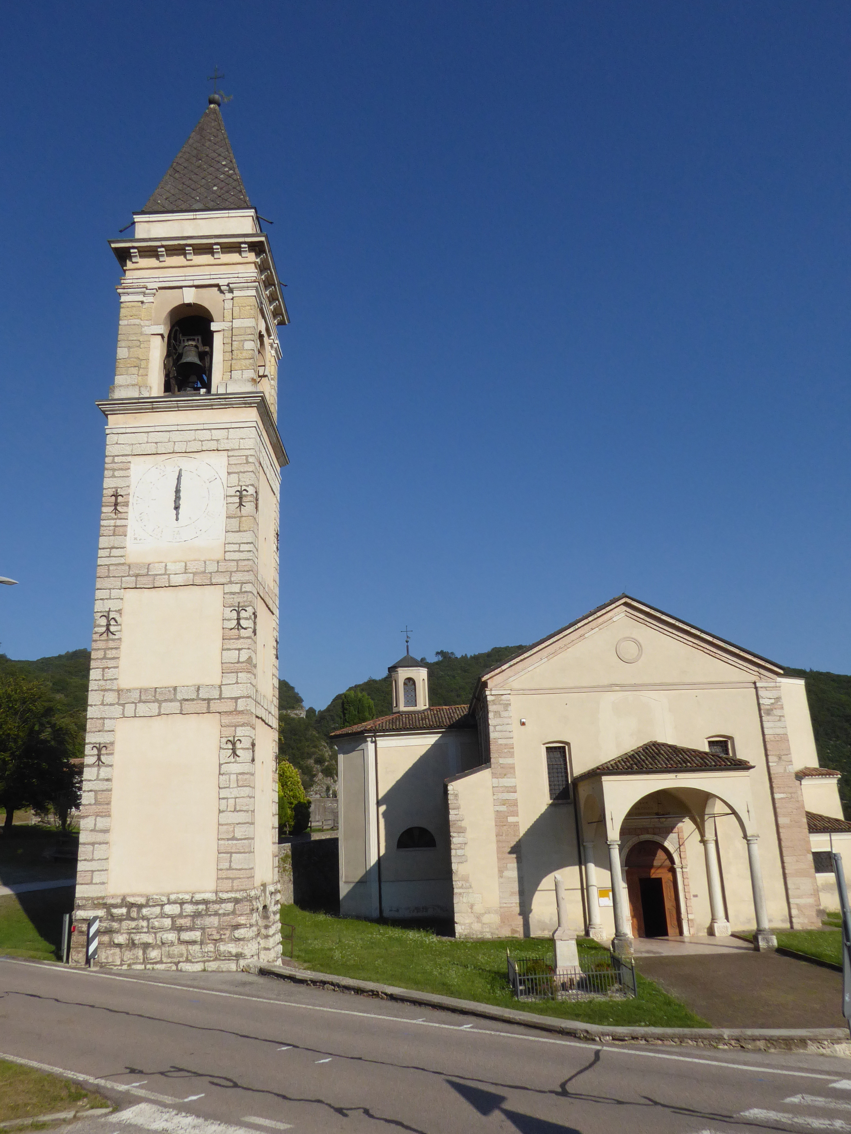 Valle San Felice (Mori, Trentino, Italy), Saints Felix and Fortunatus church